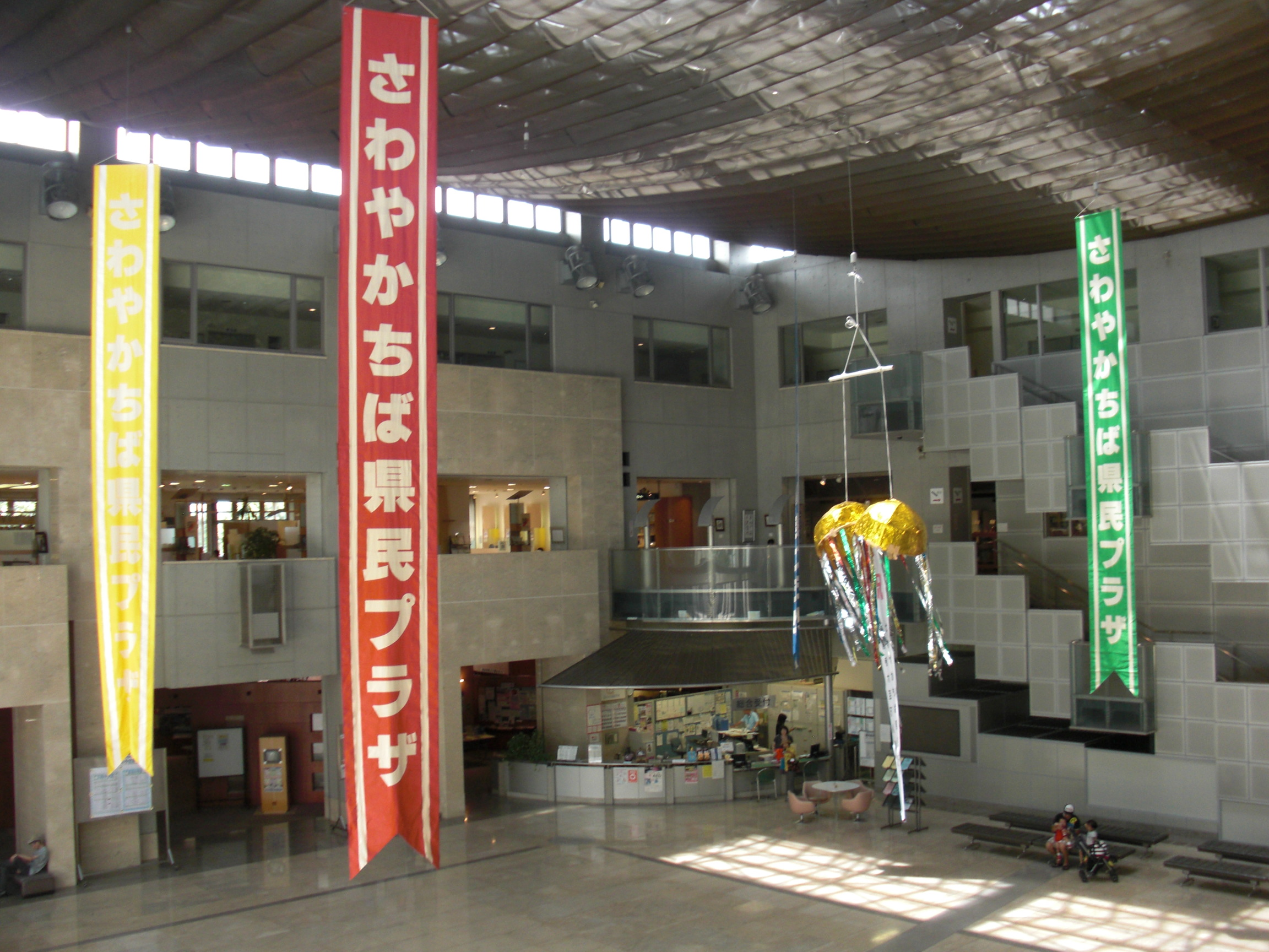 his is the building of Sawayaka Chiba Kenmin Plaza, which is located in Kashiwa, Chiba, Japan.